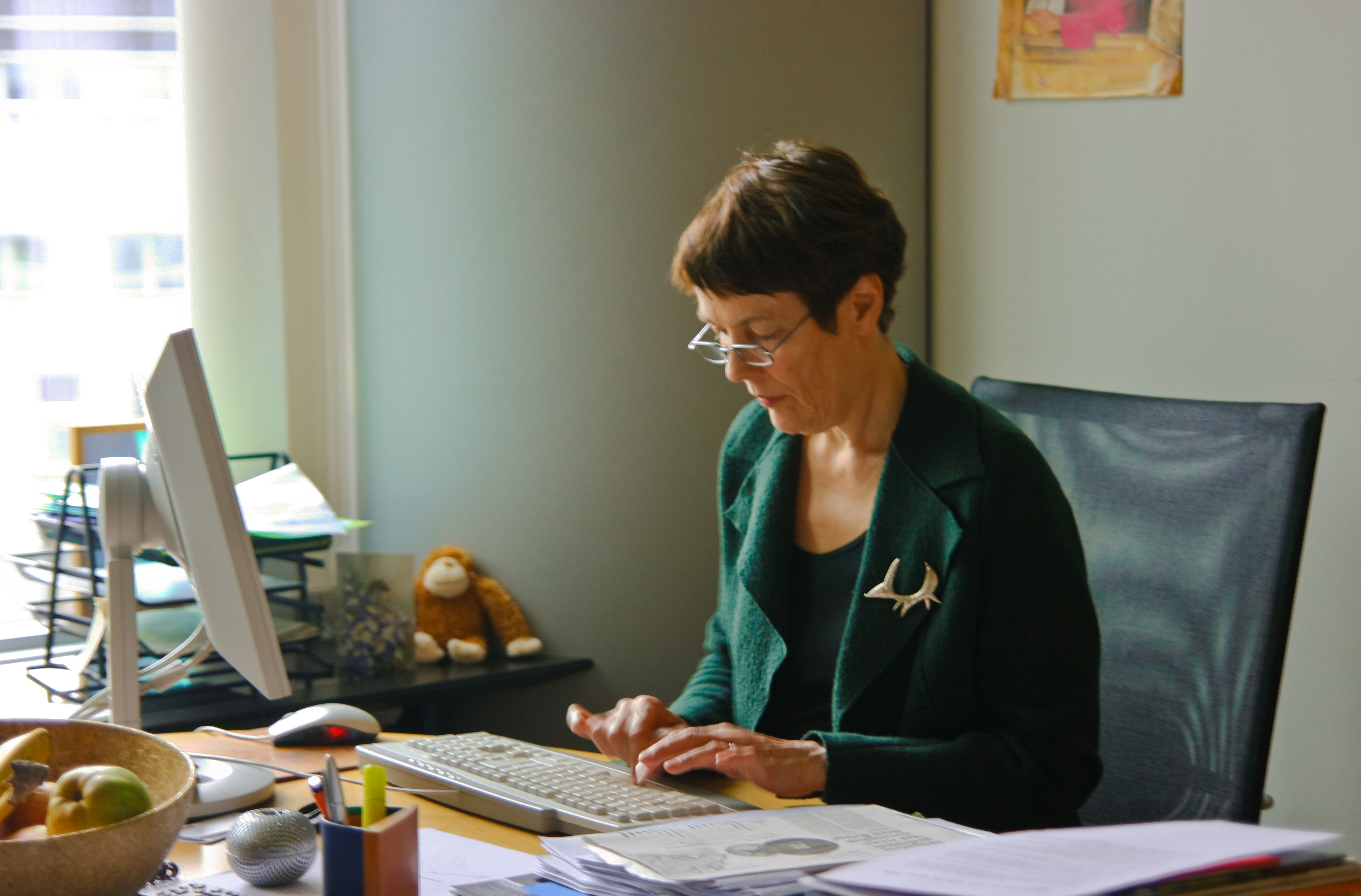 Satu Hassi, Member of the European Parliament for the Green League of Finland, working in her office in Brussels.